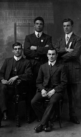 1911 Port Adelaide Football Club State representatives. From left: Angelo Congear, Harold Oliver, Sampson Hosking, Francis Ivor Hanson.